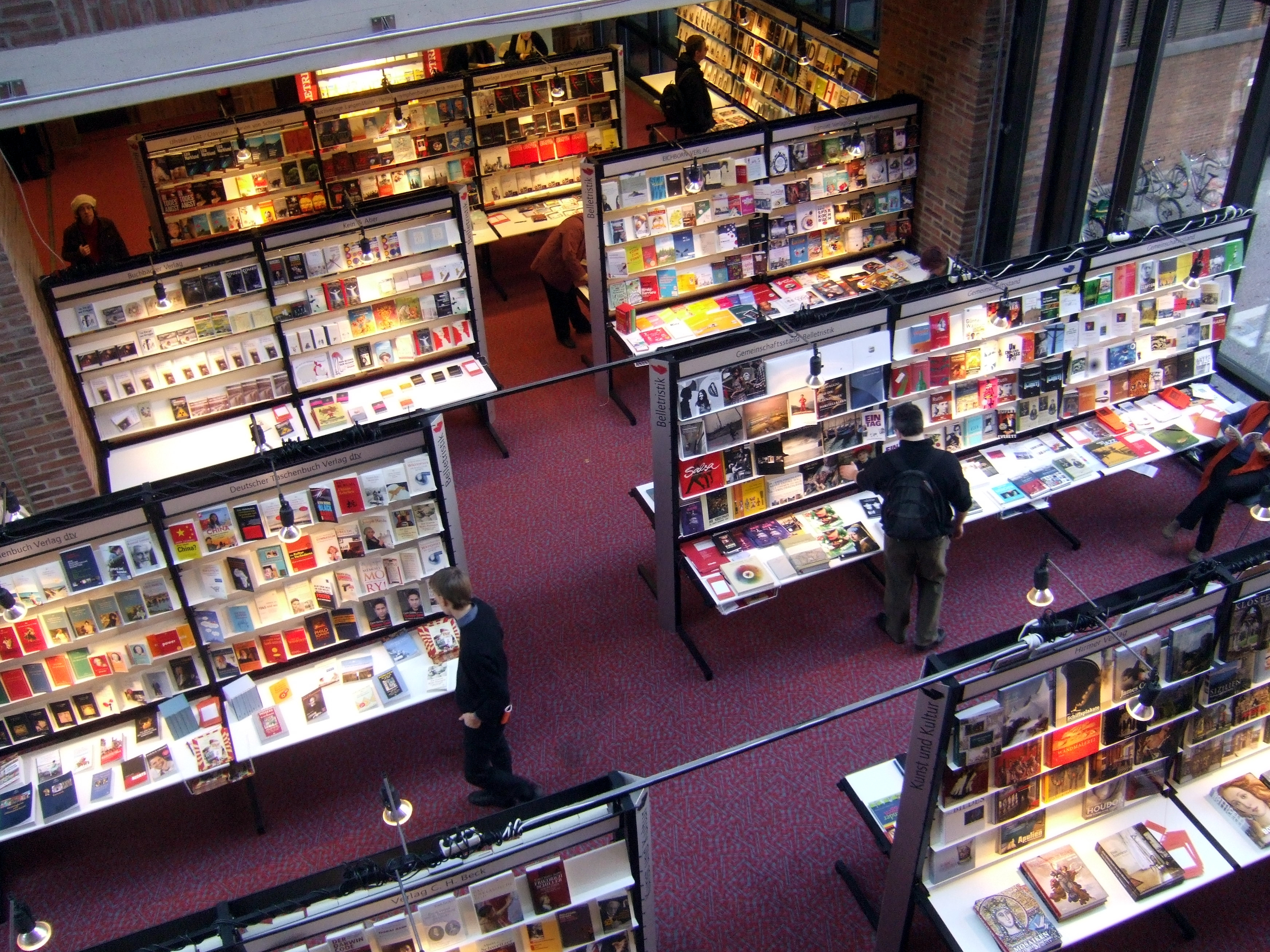 2009 Munich Book Exhibition at the Gasteig event centre